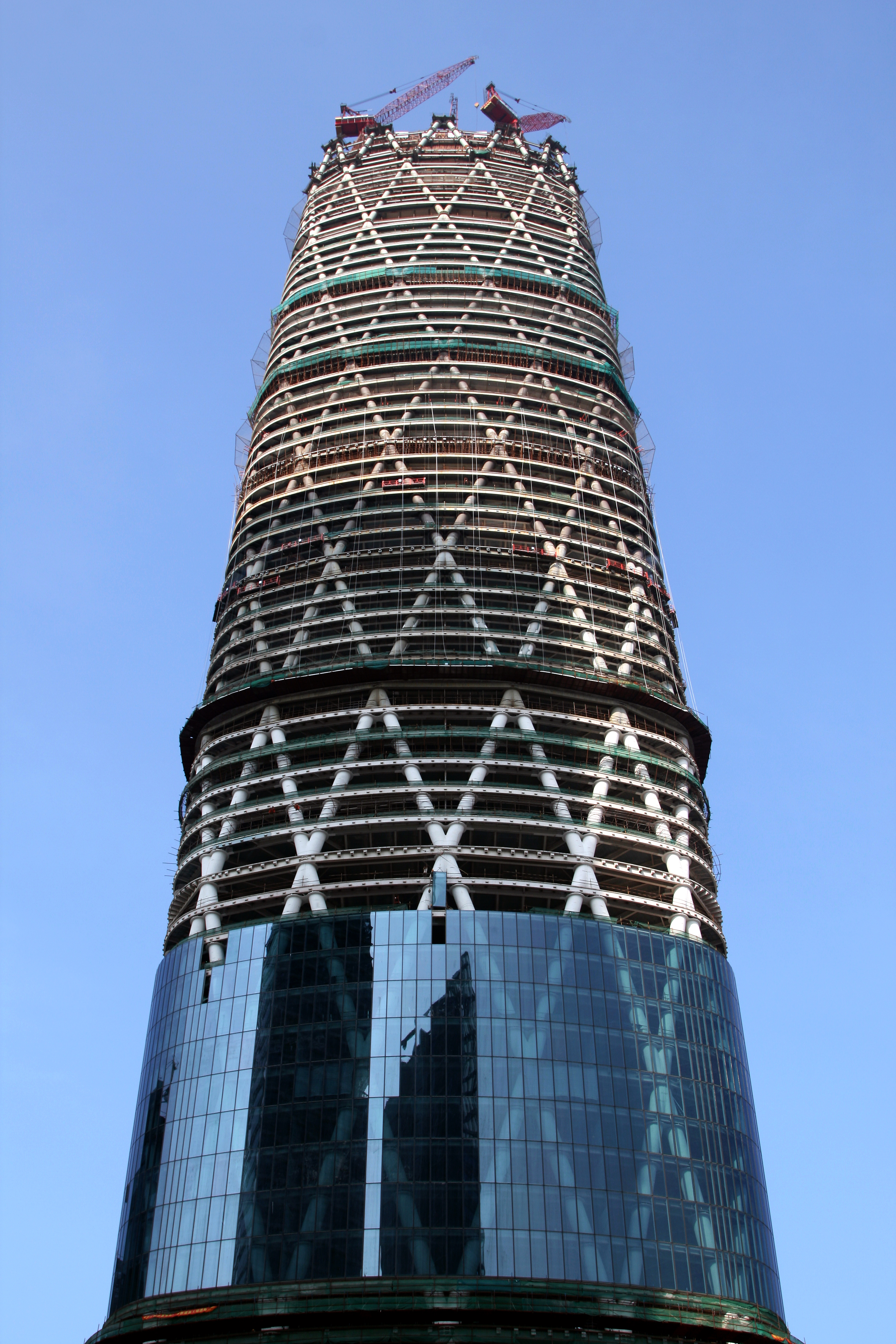 Guangzhou International Finance Center under construction in Guangzhou